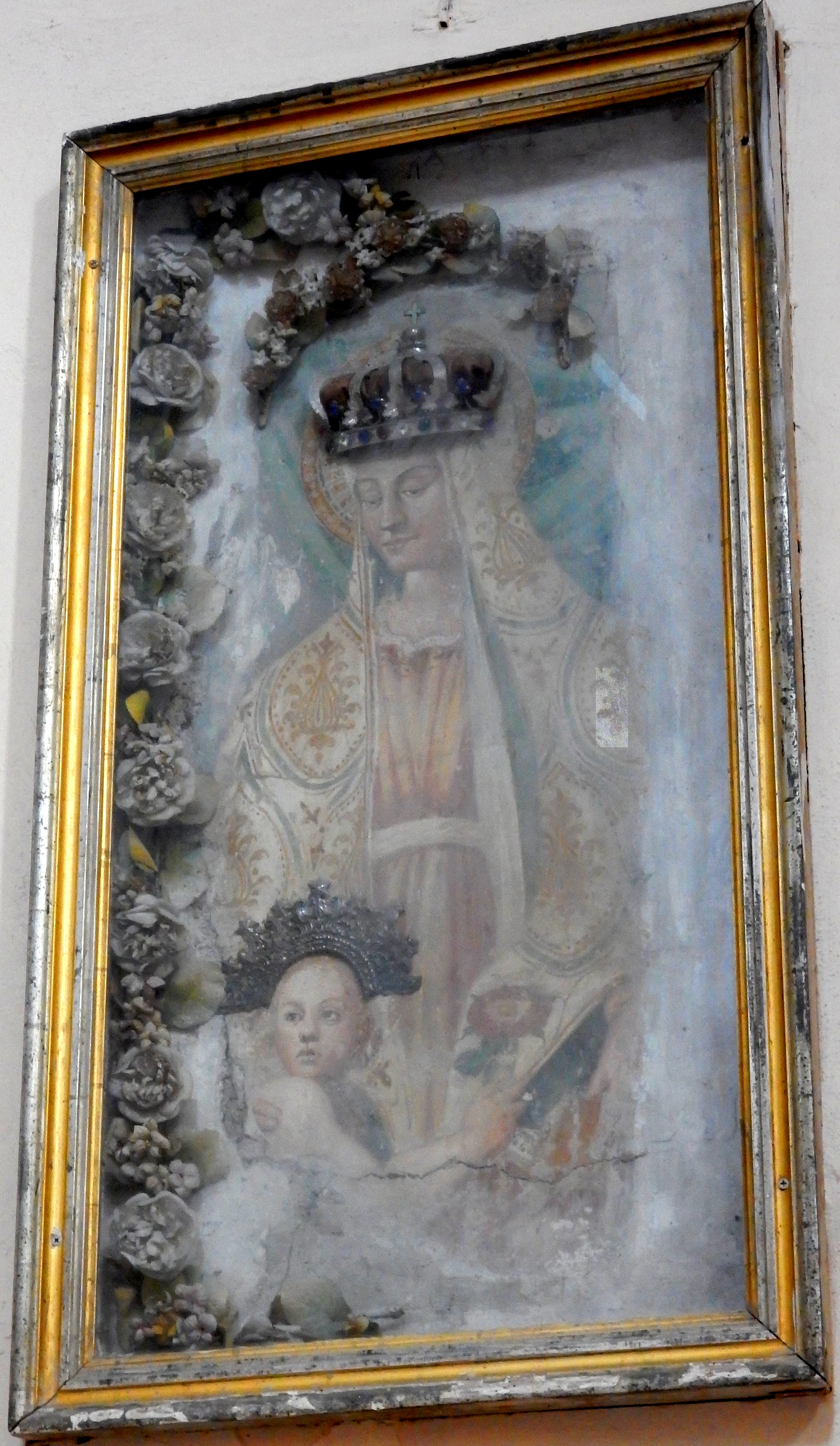 Fresco (framed) of the so-called Madonna della Rosa, preserved in the Church of Santa Maria in Valentano (Viterbo) Italy